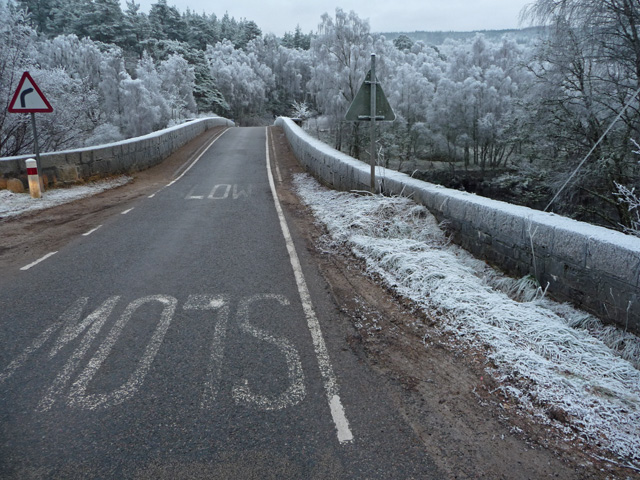 Torgyle Bridge The single carriageway bridge carries the A887 over the River Moriston.